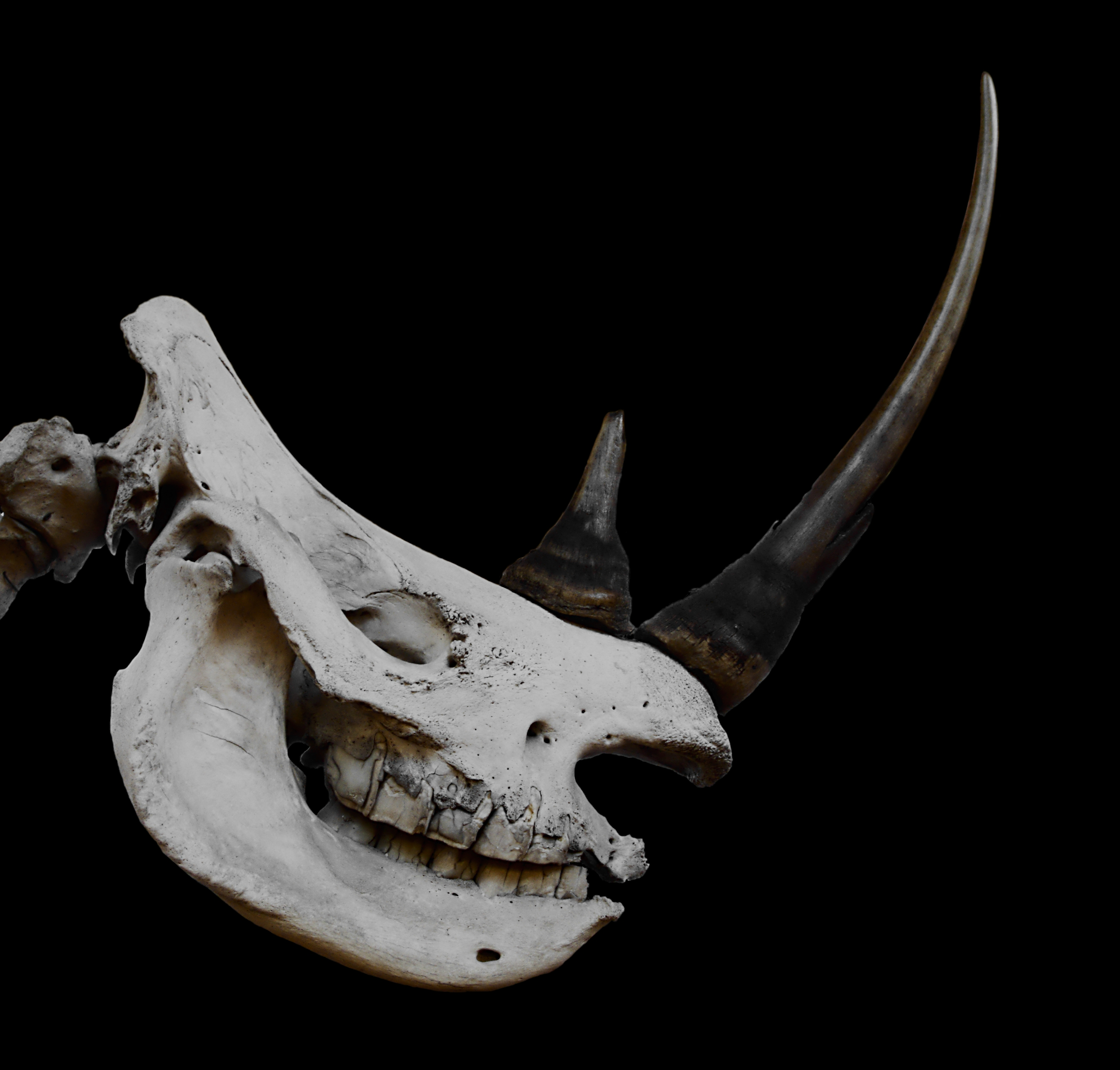 Ceratotherium simum White Rhinoceros. Skull of a female. In the Museum National d'Histoire Naturelle of Paris since 1846.